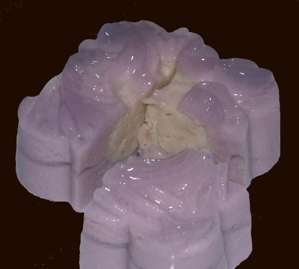 Jelly mooncake with yam paste filling, made by mum-in-law. Photo taken on September 10, 2005.